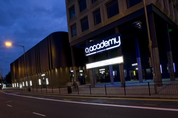 O2 Academy Birmingham Main Entrance